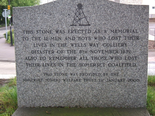 Miners Memorial, Midsomer Norton Memorial commemorating the Wells Way Colliery Disaster of 1839, situated in St. Johns churchyard.